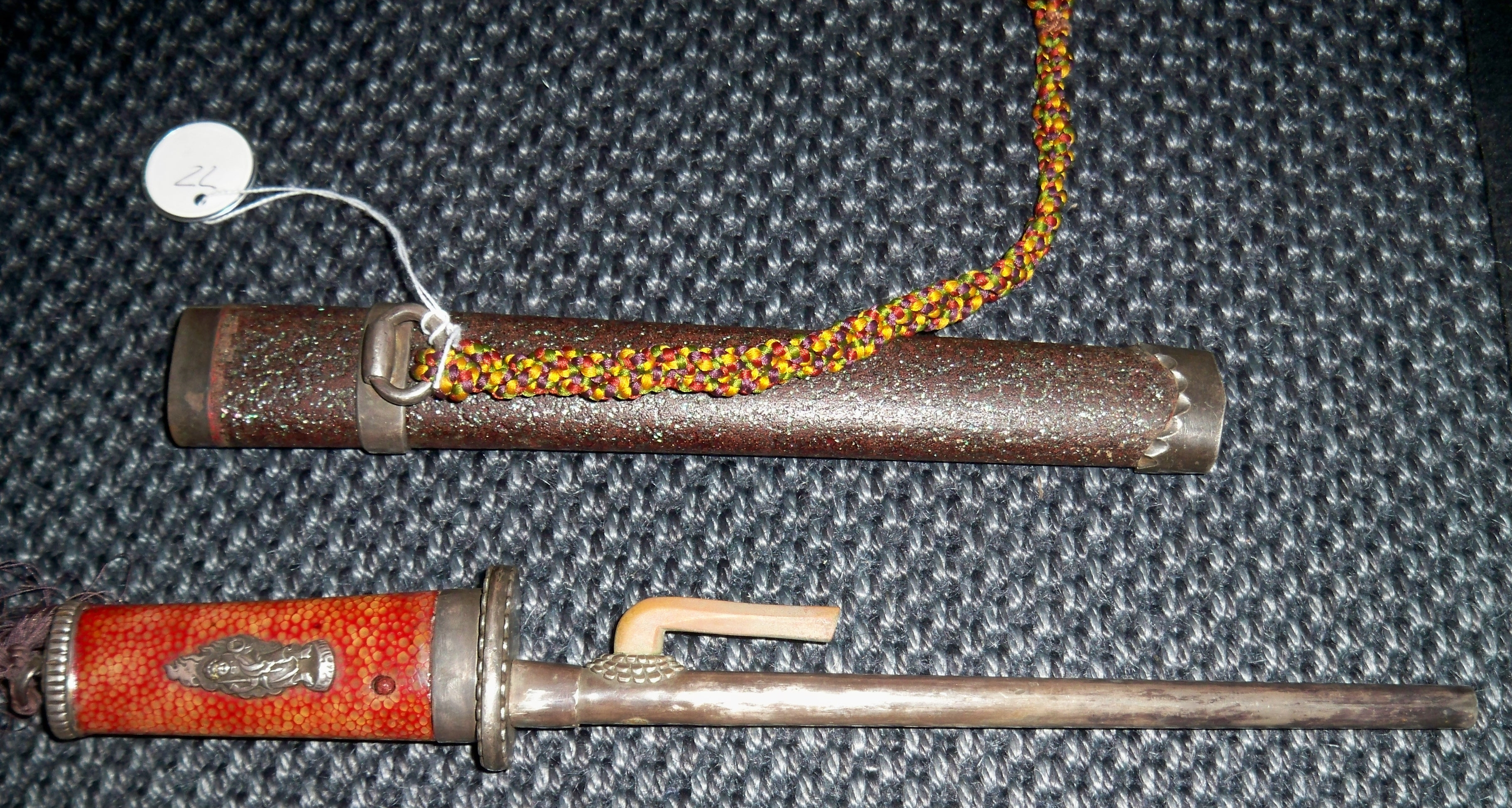 Japanese (samurai) Iron bar weapon "jutte" mounted in a sword type case "koshirae".